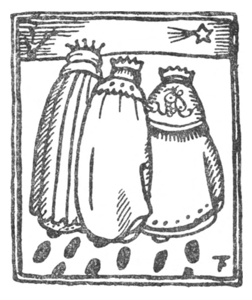 Illustration Pieter Breughel zoo heb ik u uit uwe werken geroken